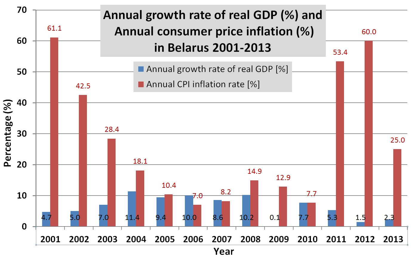 Annual growth rate of real GDP (%) and annual consumer price inflation (%) in the Republic of Belarus during 2001-2013. Value for 2013 is partly estimated. Graph is based on statistical data published on the United Nations webpage ( Same data can also be found in annual publications called World Economic Situation and Prospects (e.g., see Appendix A2 and A5 in these publications), available freely in pdf format e.g. in English.